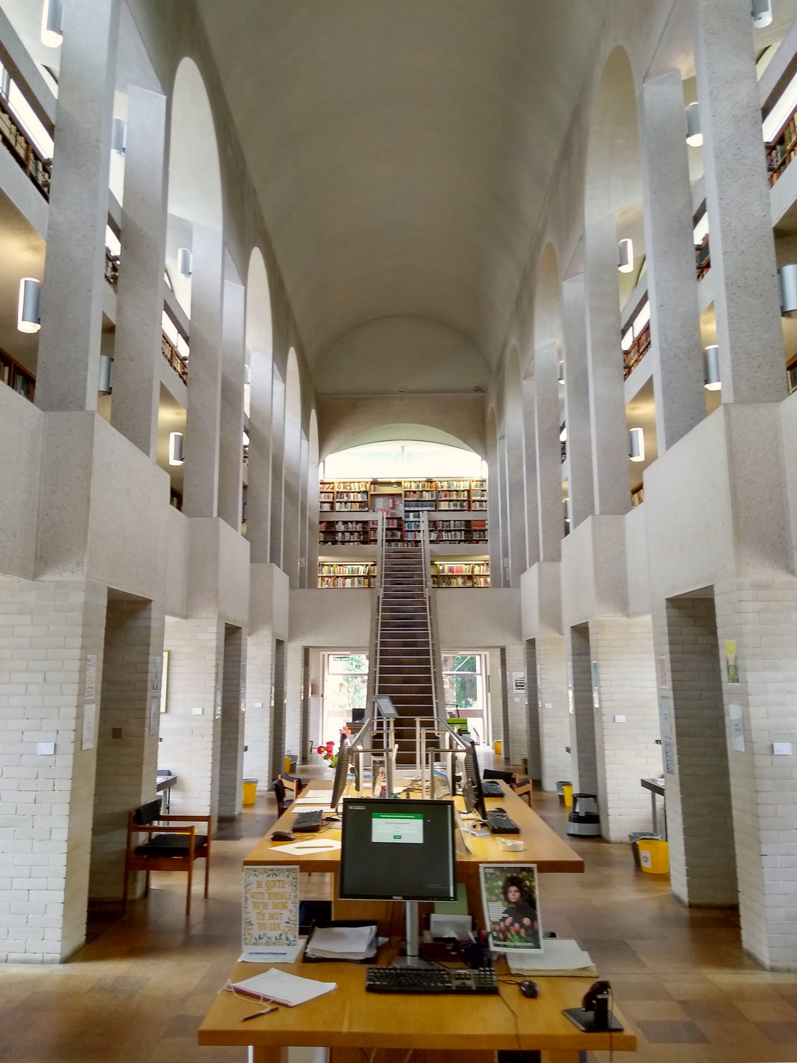 Library of Murray Edwards College, Cambridge in July 2019.